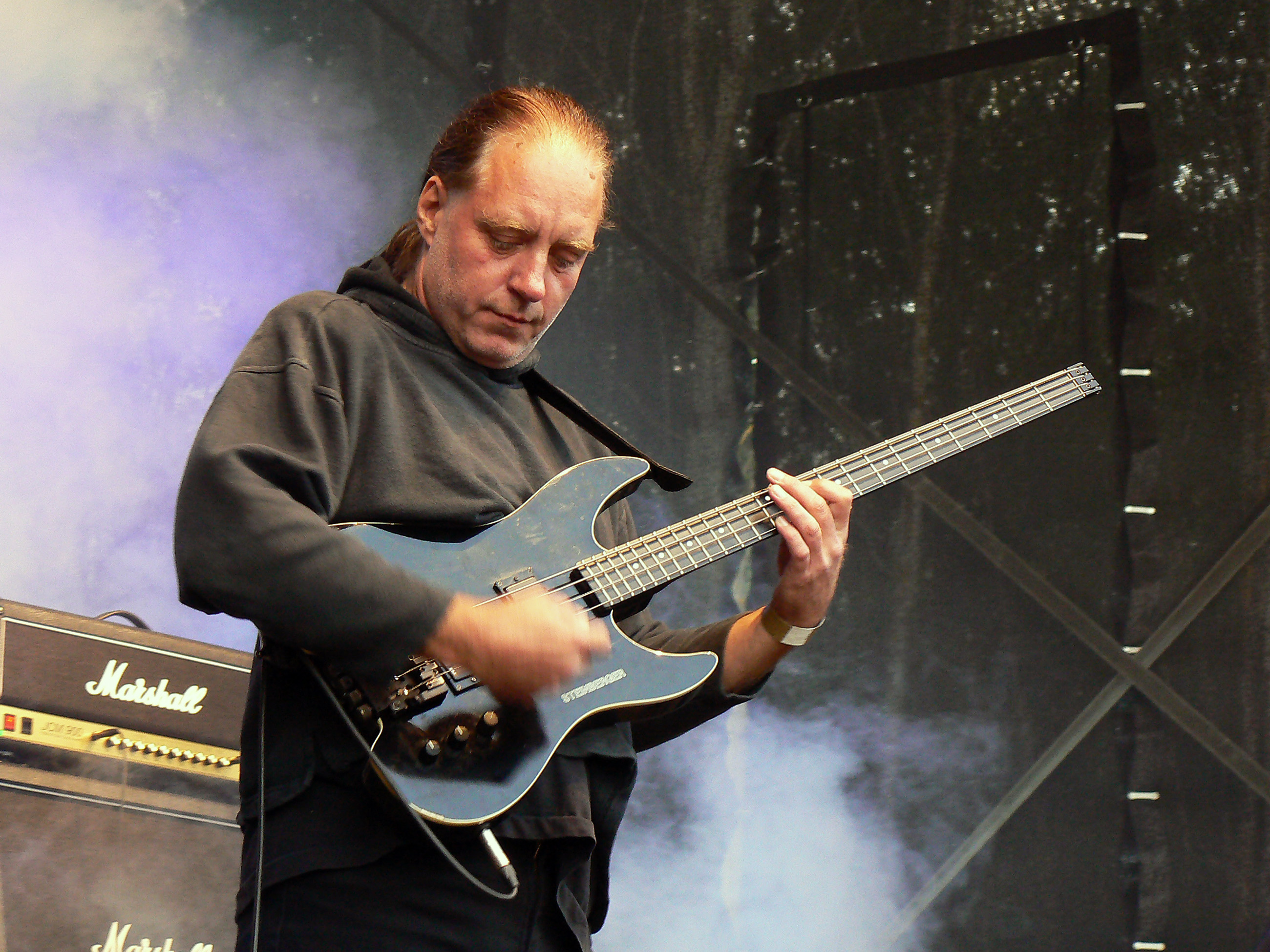 Ralph Hubert from Mekong Delta at "Kilkim žaibu XII", Lithuania.